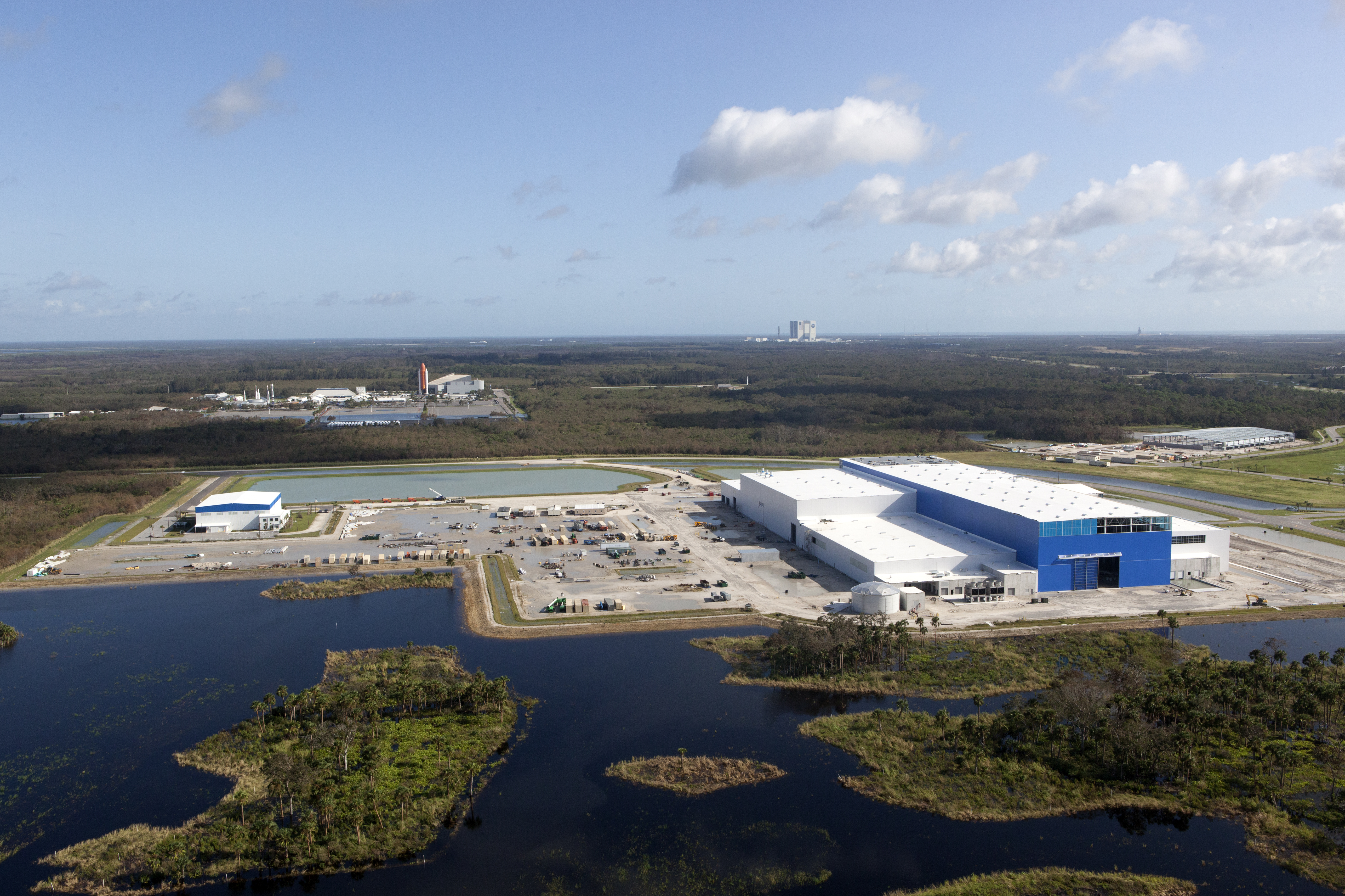 The Blue Origin construction site at Exploration Park is seen during an aerial survey of NASA's Kennedy Space Center in Florida on September 12, 2017. The survey was performed to identify structures and facilities that may have sustained damage from Hurricane Irma as the storm passed Kennedy on September 10, 2017. NASA closed the center ahead of the storm’s onset and only a small team of specialists known as the Rideout Team was on the center as the storm approached and passed.